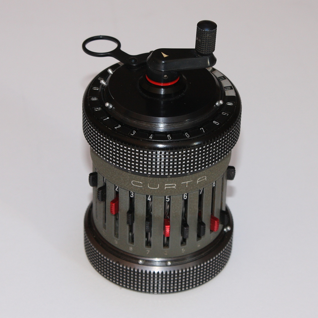 Curta Type II mechanical calculator. Crank handle pulled out for subtraction/division